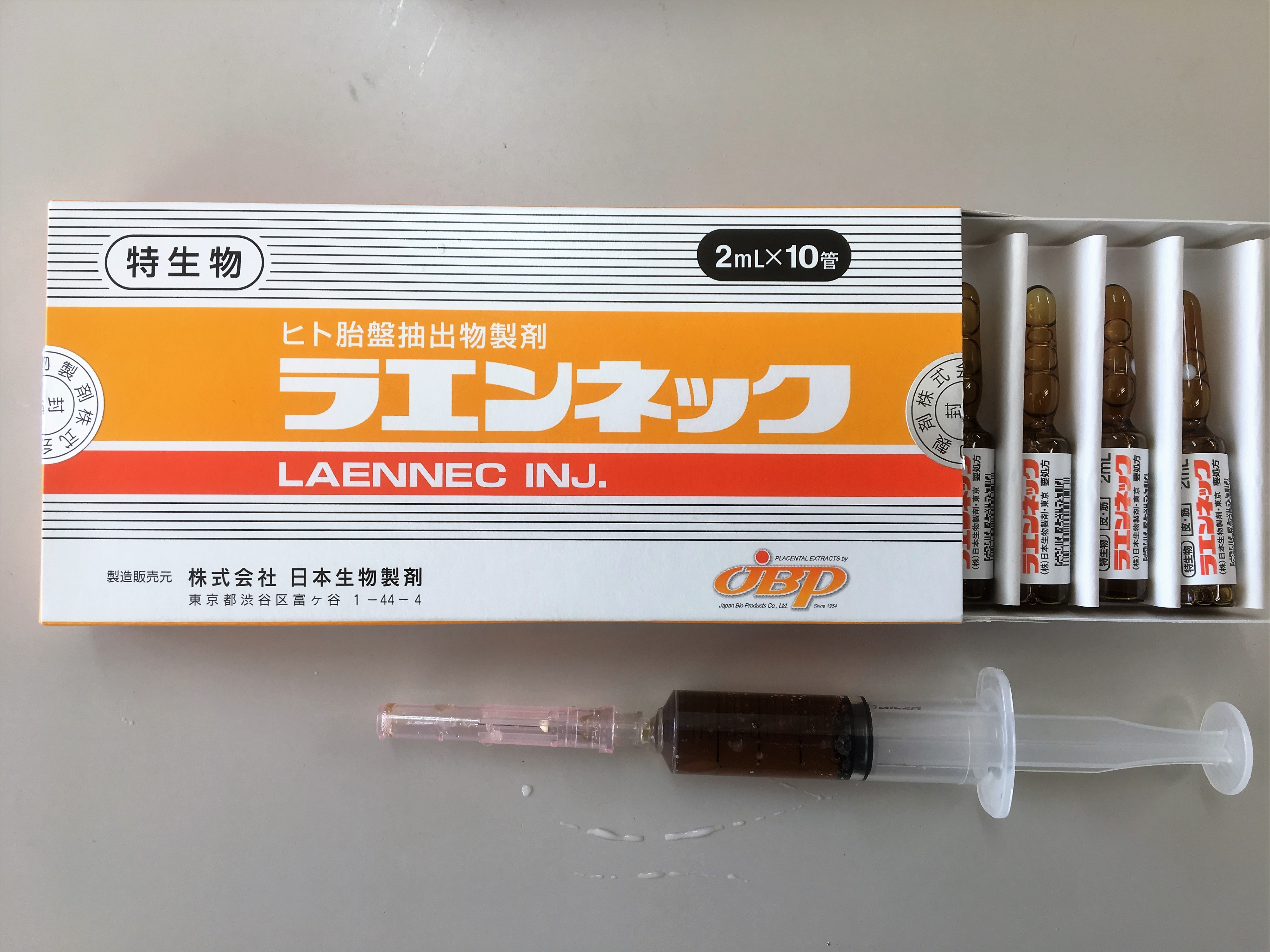 placenta products ”LAENNNEC”